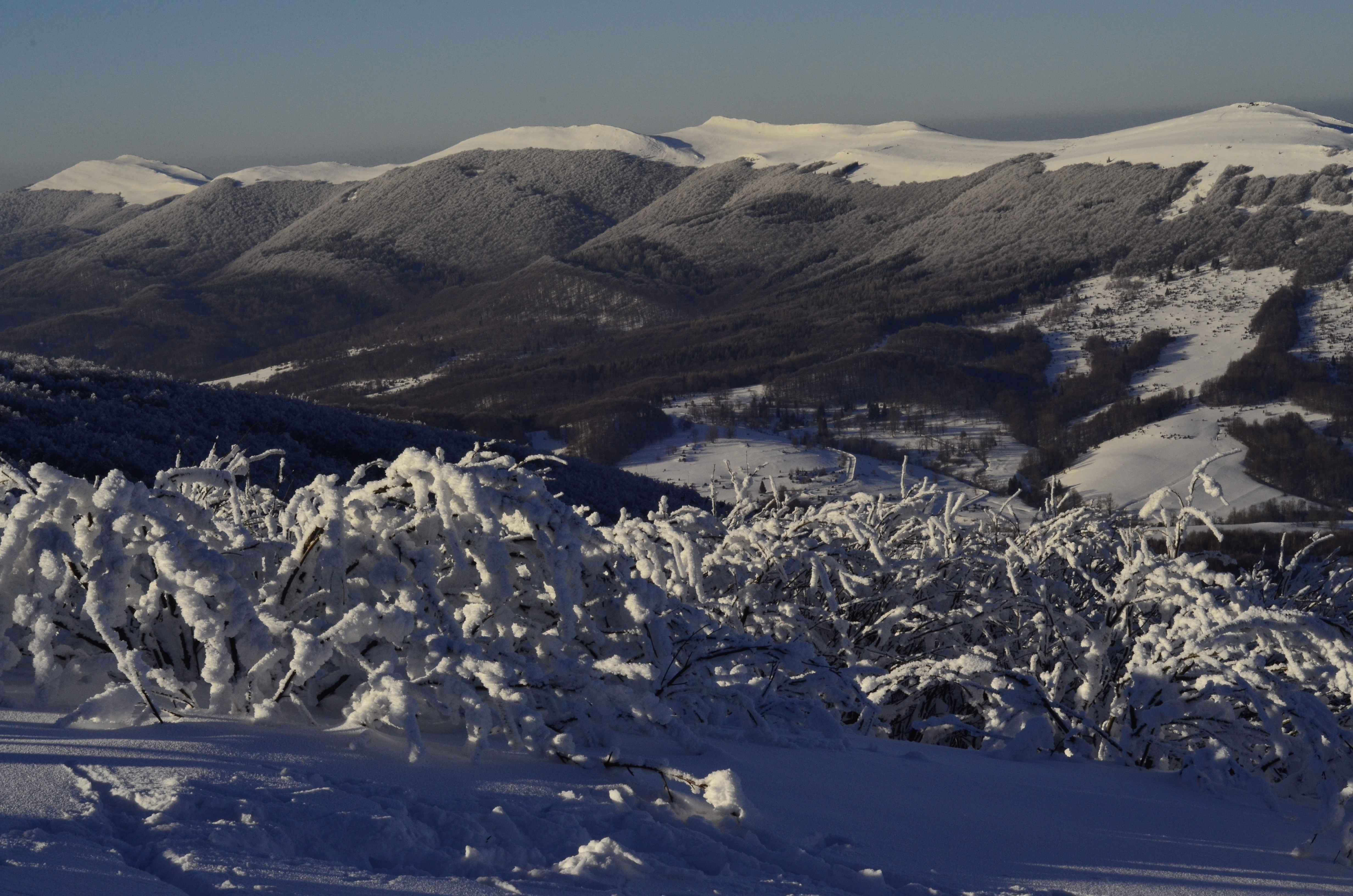 Bieszczady National Park, Polonina Wetlinska This is a photography of Natura 2000 protected area with ID PLC180001